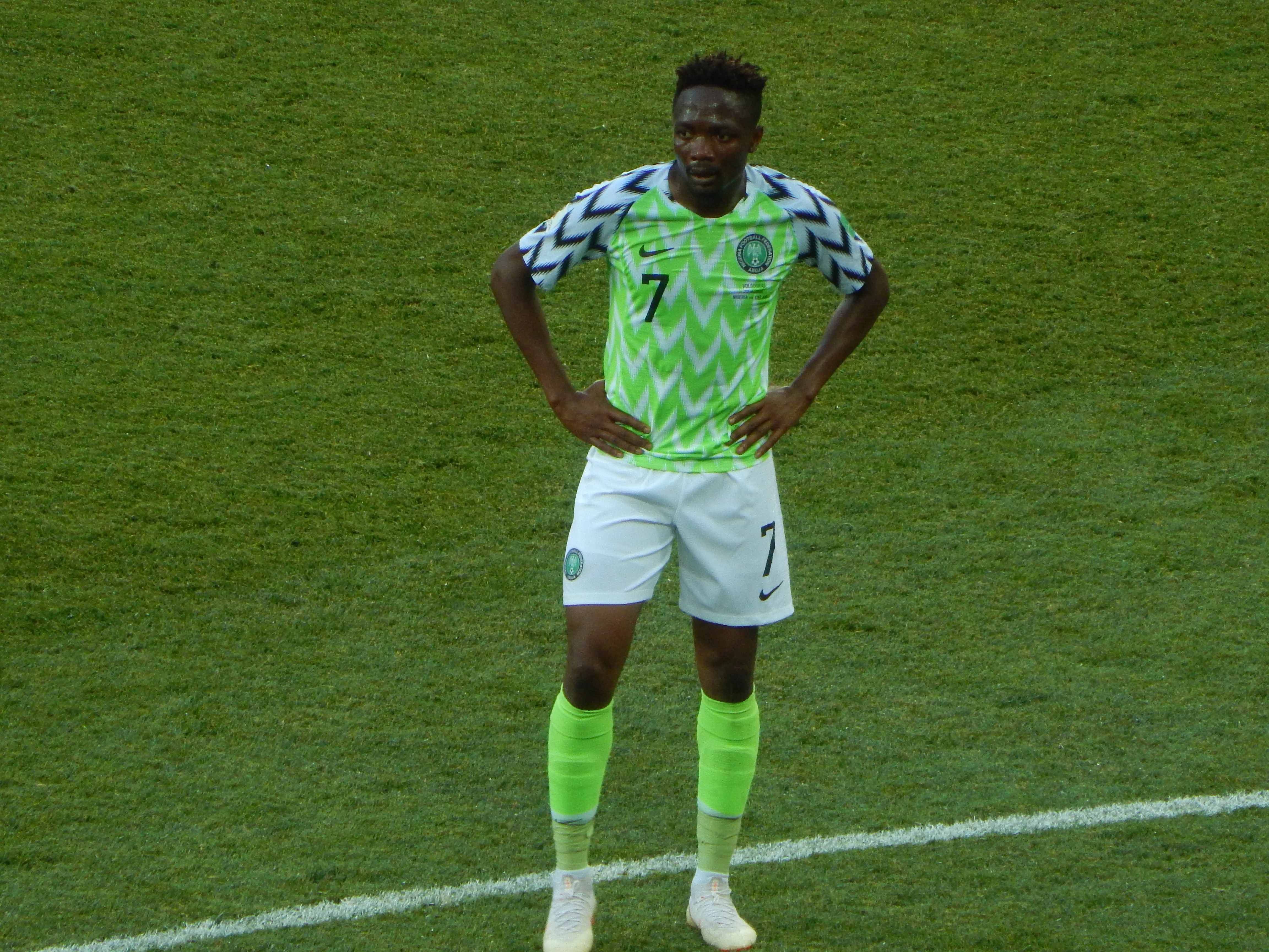 FIFA World Cup 2018, Group D, Nigeria vs. Iceland